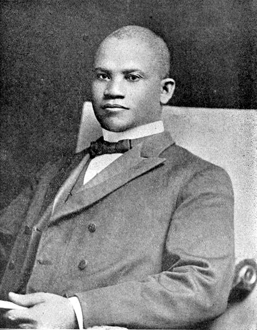 Portrait photograph of African Methodist Episcopal Zion Church bishop George Lincoln Blackwell